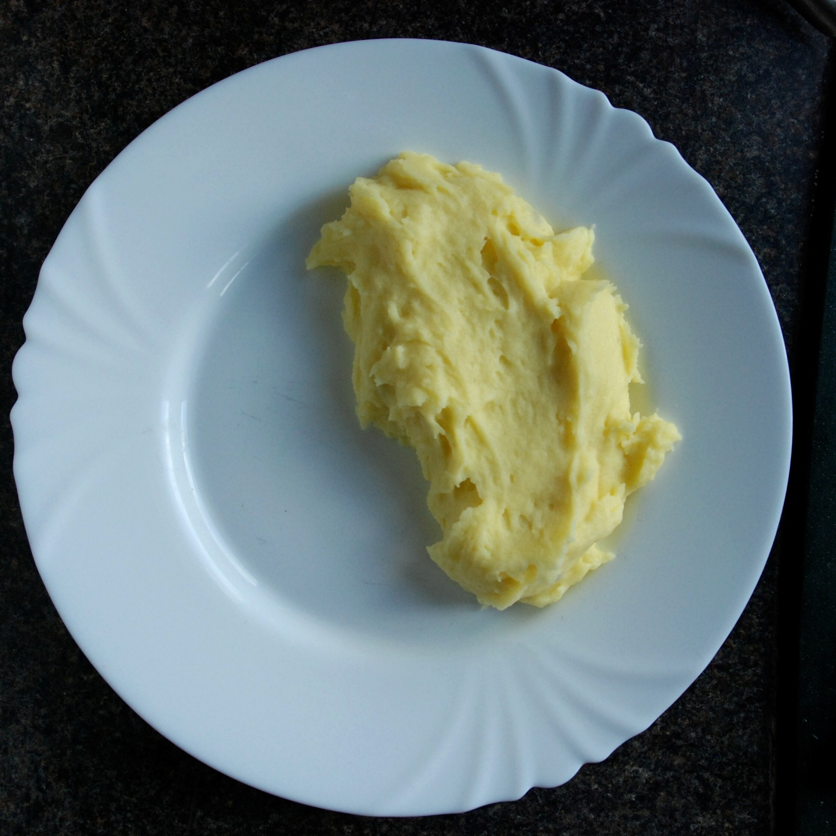 Mashed potatoes